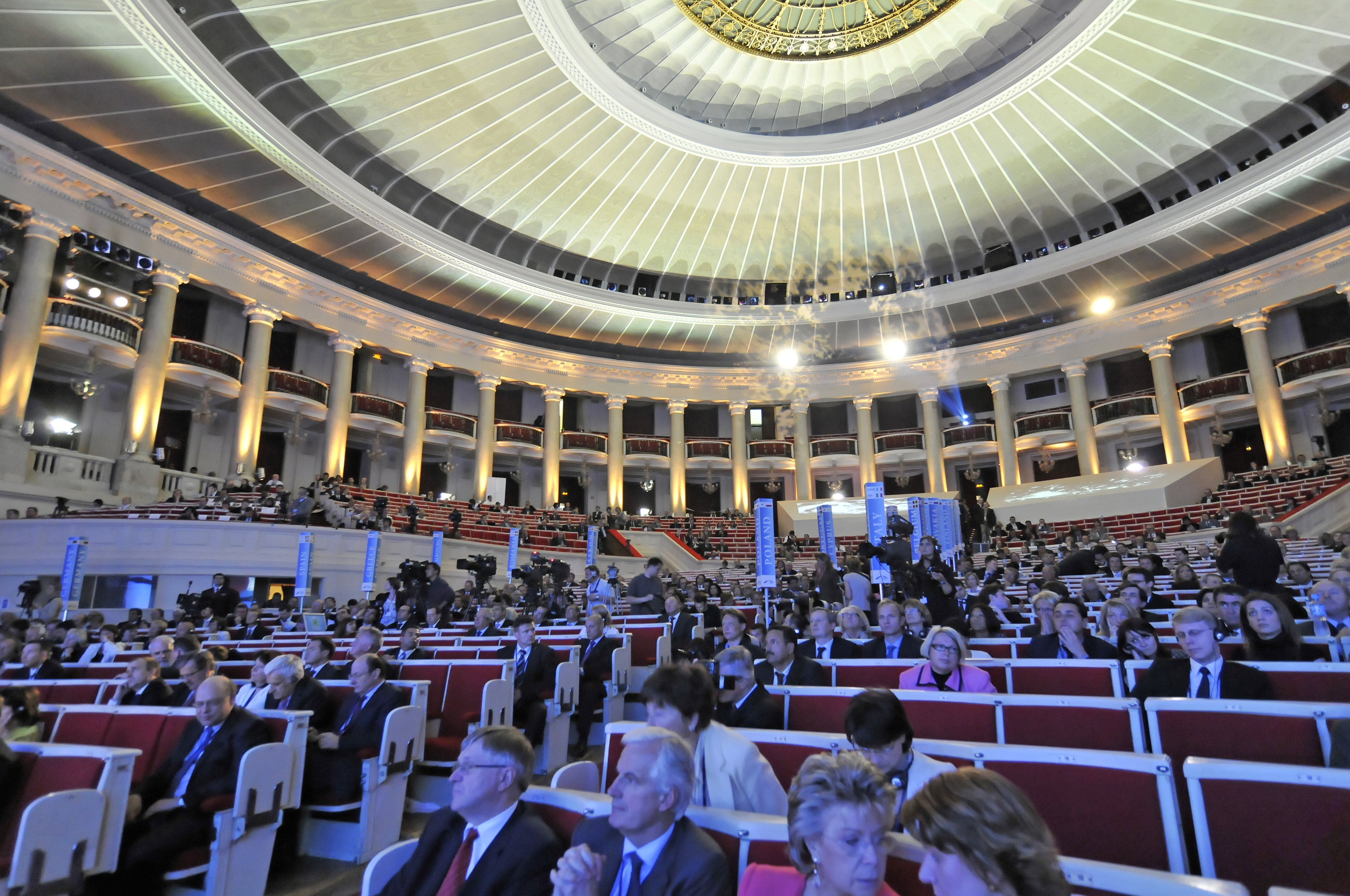 EPP Congress Warsaw